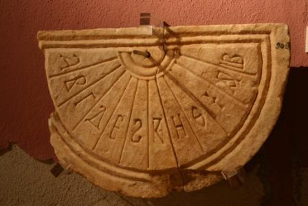 Canonical sundial (Museum of Istanbul)